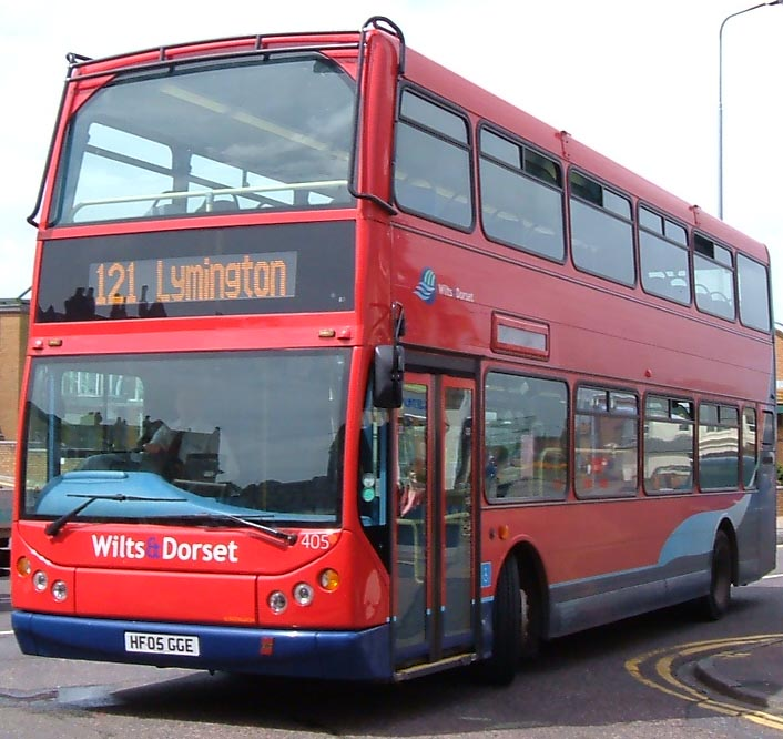 Wilts & Dorset's 405 (HF05 GGE), a Volvo B7TL/East Lancs Myllennium Vyking, in Boscombe on route 121.